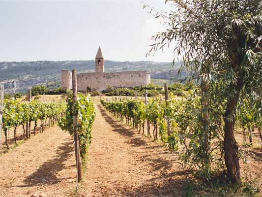 Exteriér Hrastovlje (autor Bibliofil, foceno Cannon EOS 3000)